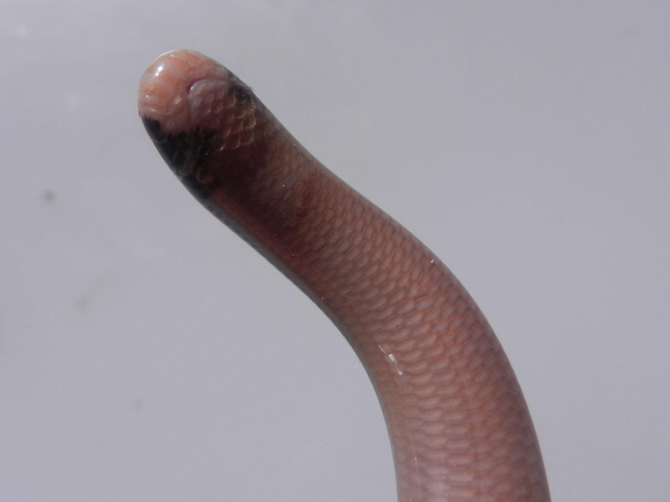 Typhlops reticulatus at the Manu Learning Center, Madre de Dios (Perú).